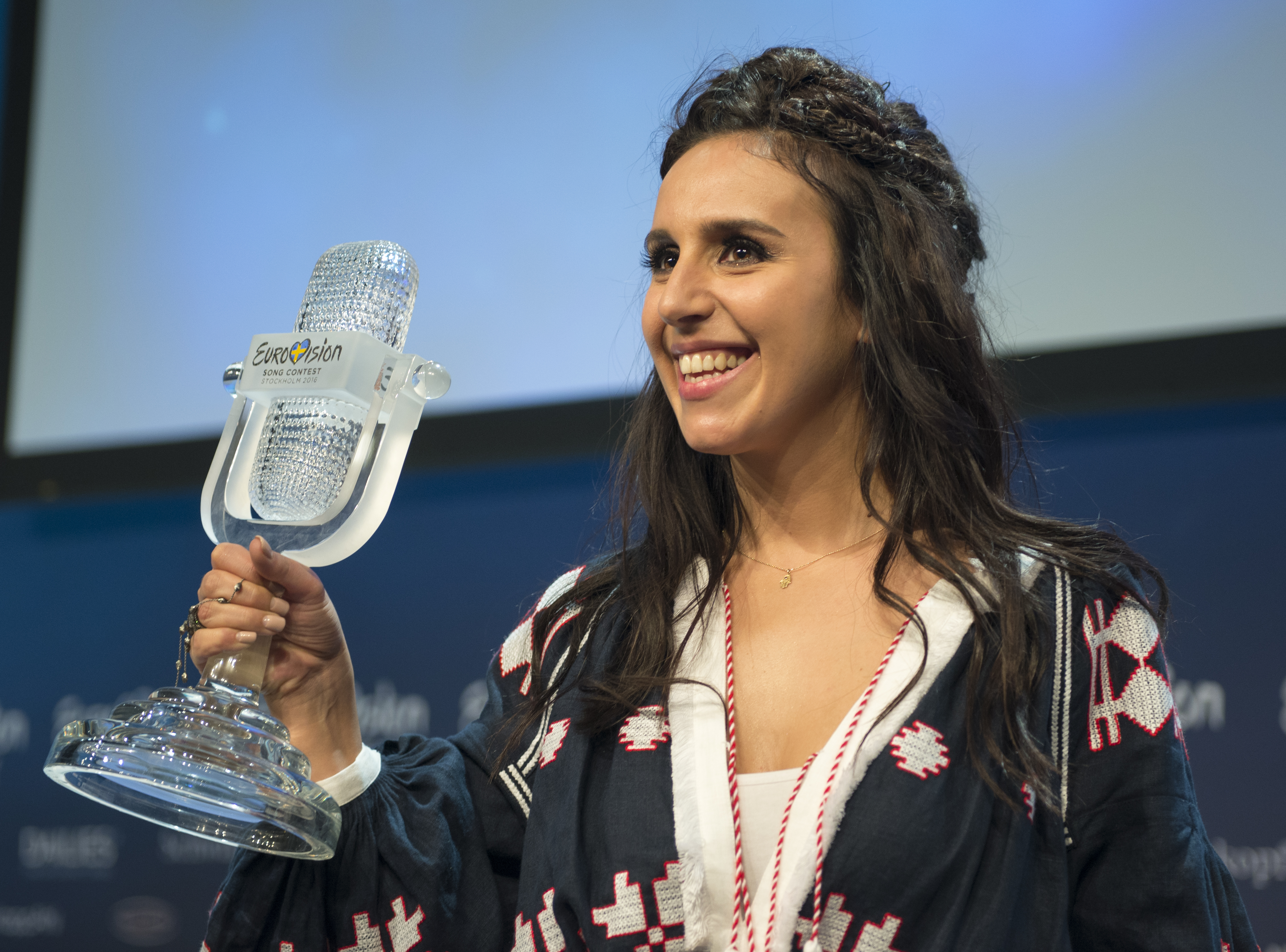 Jamala at the winners press conference, right after winning the Eurovision Song Contest 2016 in Stockholm. (Help translate this text)